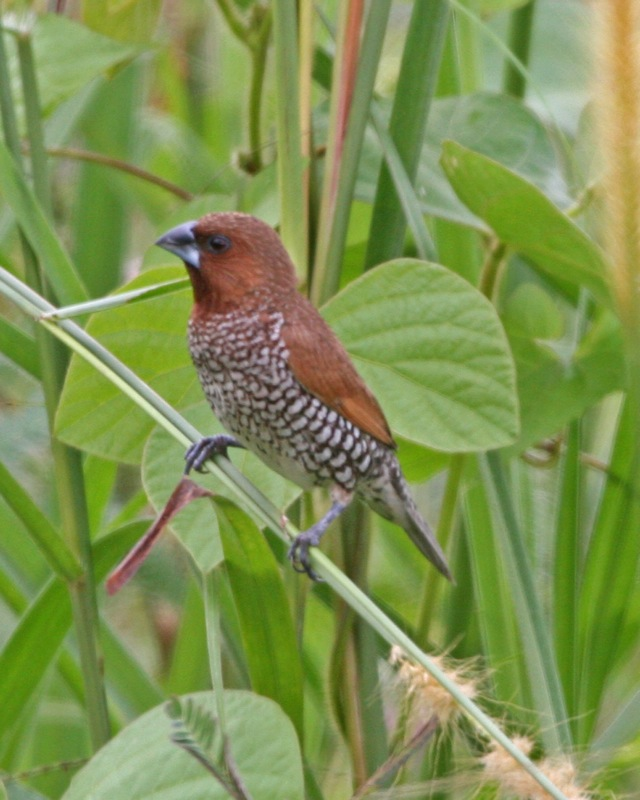 Scaly-breasted Munia (Lonchura punctulata) Sembawang grassland, Singapore May 29, 2005